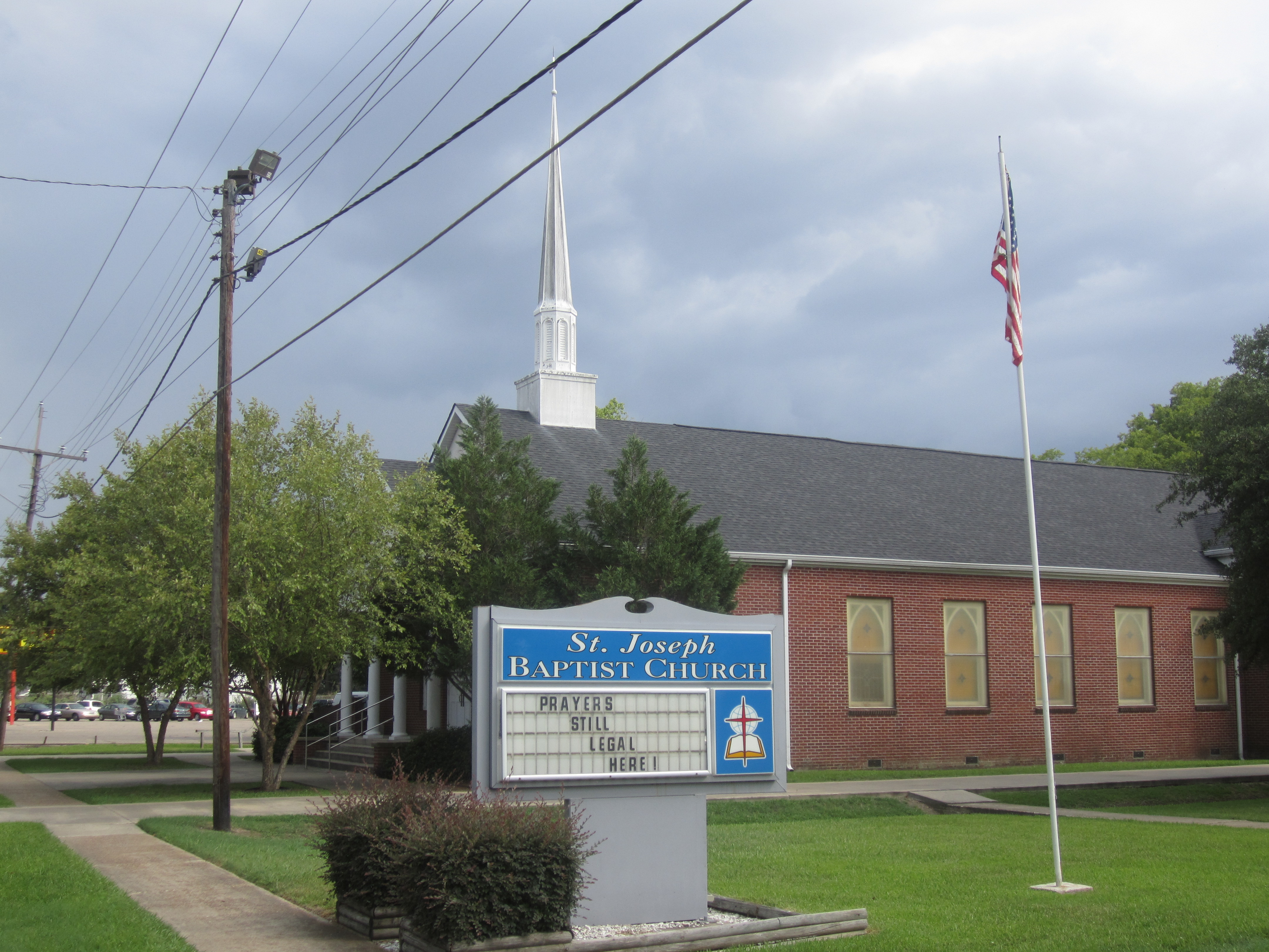 I took photo with Canon camera in St. Joseph, LA.